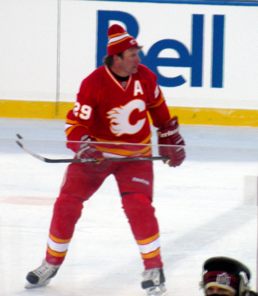 Former NHL player Joel Otto during the alumni game at the 2011 Heritage Classic in Calgary.